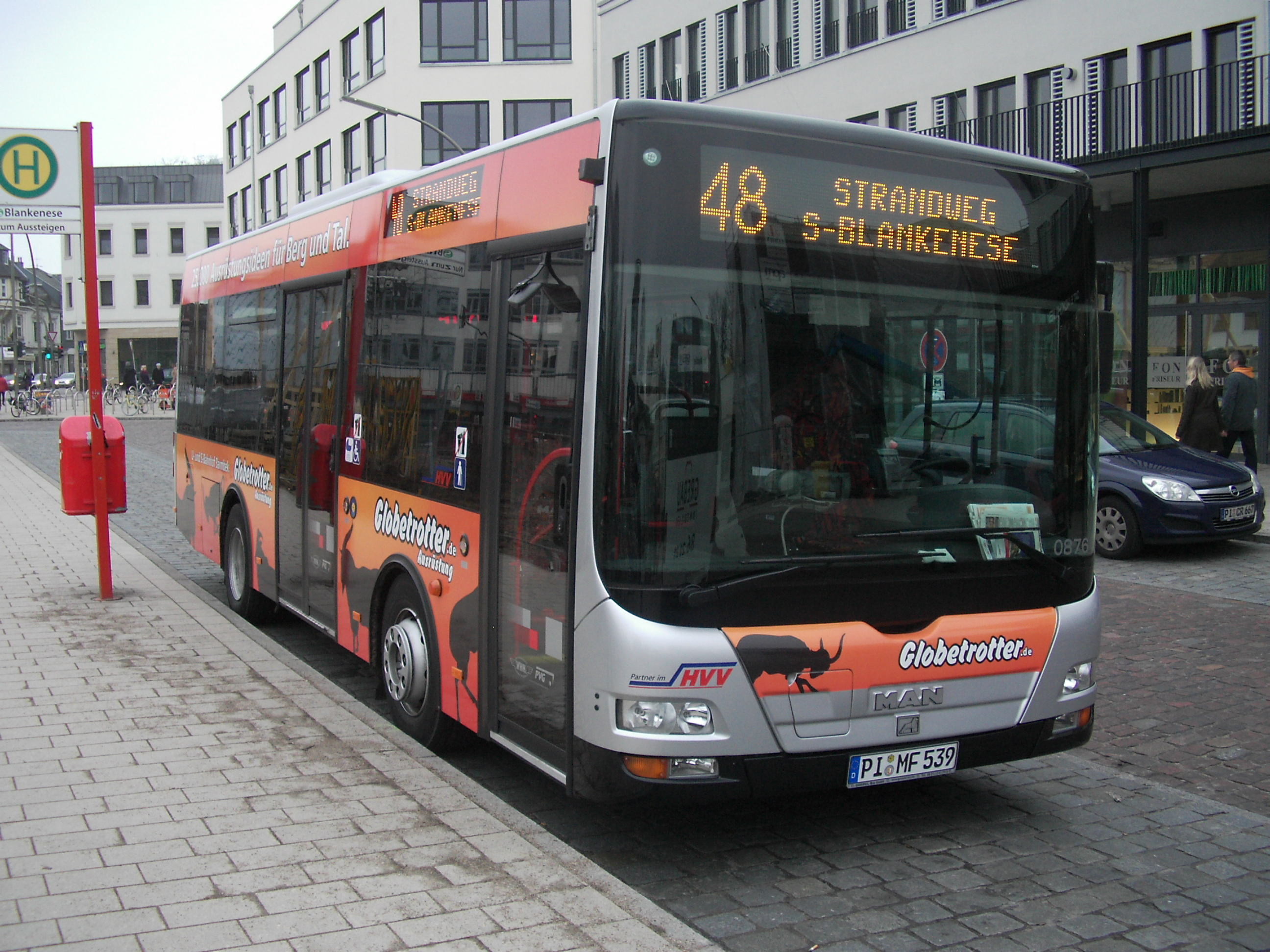 MAN Lion´s City M bus (type A76, lenght: 8.610 mm; #0876, reg. PI-MF 539) in Germany. PVG operator.